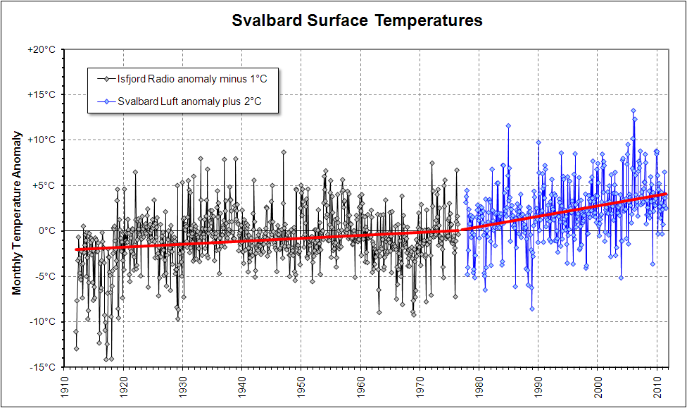 Svalbard surface temperature mean monthly anomalies 1912 to 2011, in °C. Anomalies are station monthly temperatures minus the local average for the month. The recording station moved some 47 km from Isfjord Radio (78.1°N, 13.6° E) to Svalbard Luft (78.2°N, 15.5°E) in 1976, with little record overlap. There is an obvious station temperature difference, here largely removed by plotting anomalies from monthly averages instead of the raw temperatures. A common base period for computing anomalies is not available because of the lack of record overlap. The base intervals used here are 1912-1976 for Radio and 1978-2007 for Luft (both near to the local full record). Because of the differing base intervals, the long-term uptrend results in a substantial step change in anomaly (circa 3°C) at the station change. To produce an indicative combined anomaly plot, the difference is here crudely adjusted by moving Radio down by 1°C and Luft up by 2°C, so that the trend lines meet at the station change. The resulting zero crossing is near 1975, so the plotted anomalies relate approximately to the commonly adopted 1960-90 interval. The Svalbard record shows one of the strongest long-record warming trends on Earth, in close agreement with the pattern of climate model predictions.